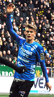 Eric Smith